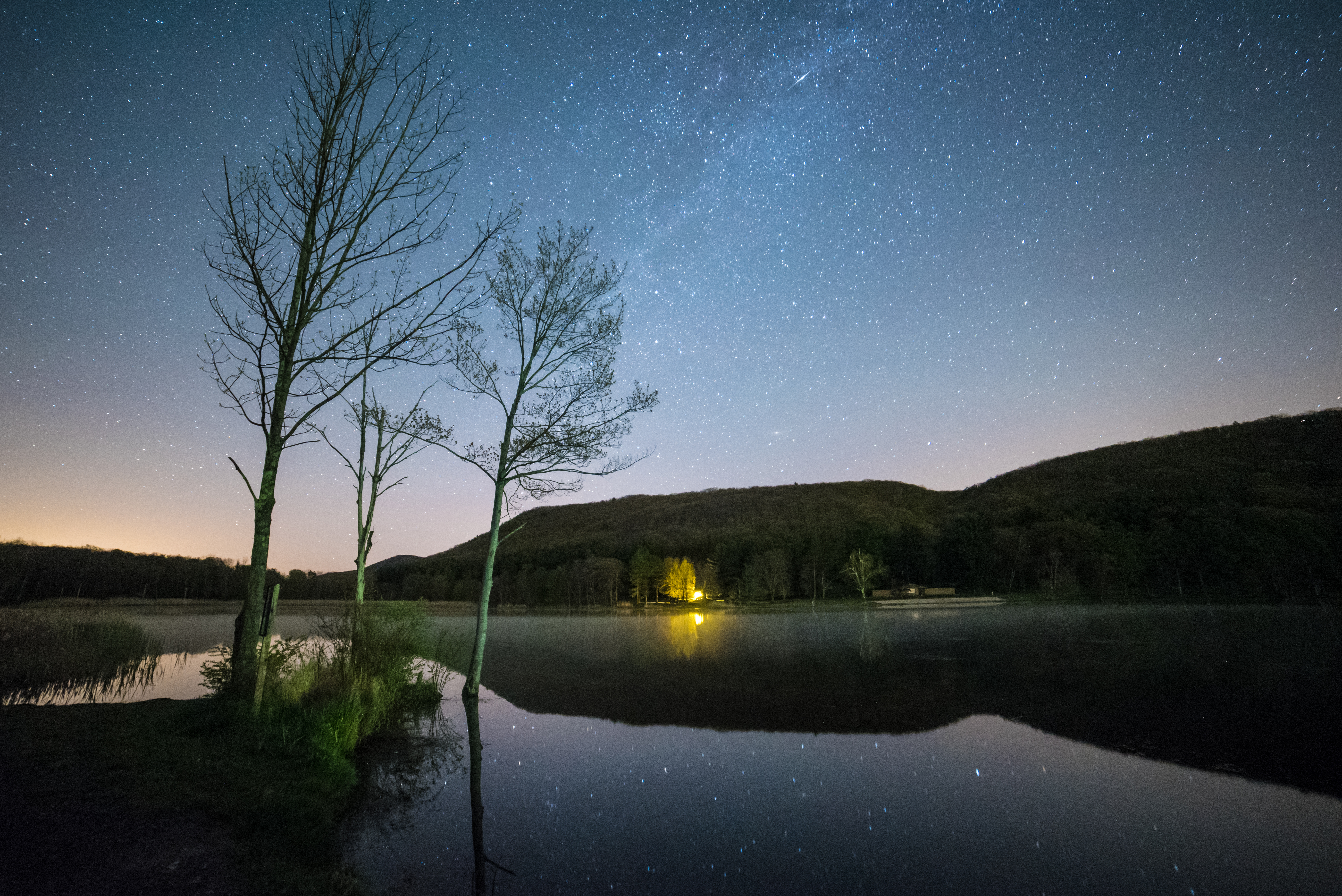 Nighttime view of Rudd Pond in Taconic State Park, from Rudd Pond Road in Millerton, New York, USA.